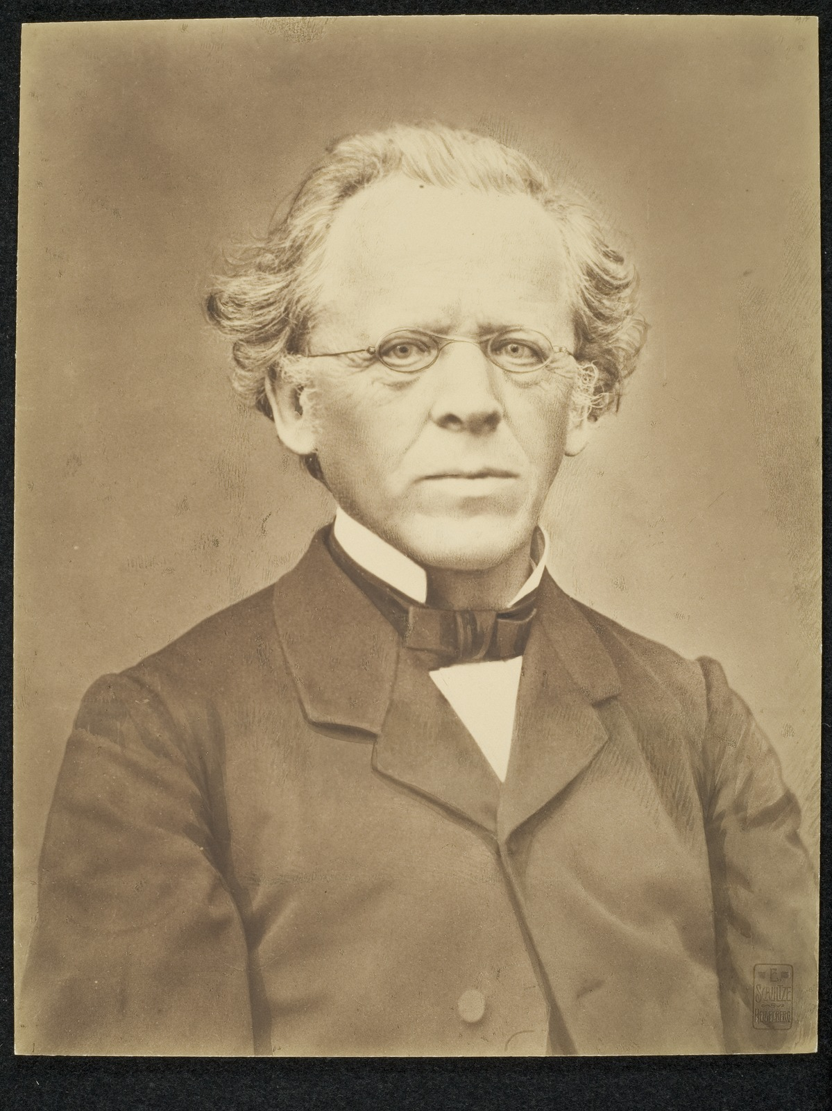 Friedrich Arnold (Anatom, 1803–1890)